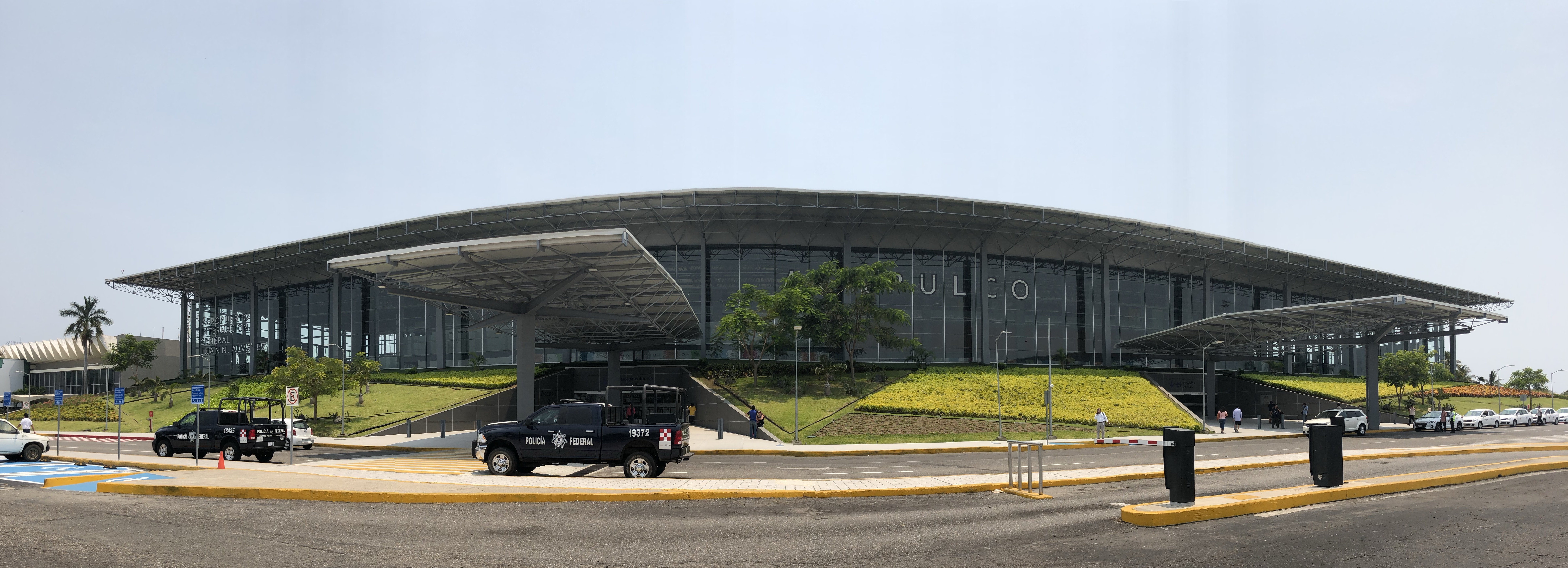 Nueva terminal del Aeropuerto de Acapulco